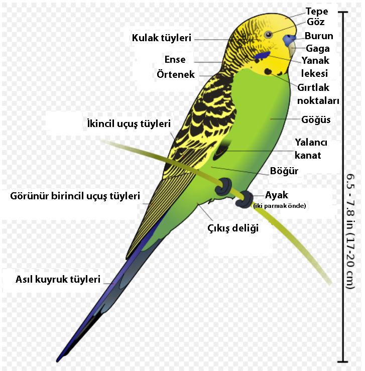 Exterior diagram of a green budgerigar.